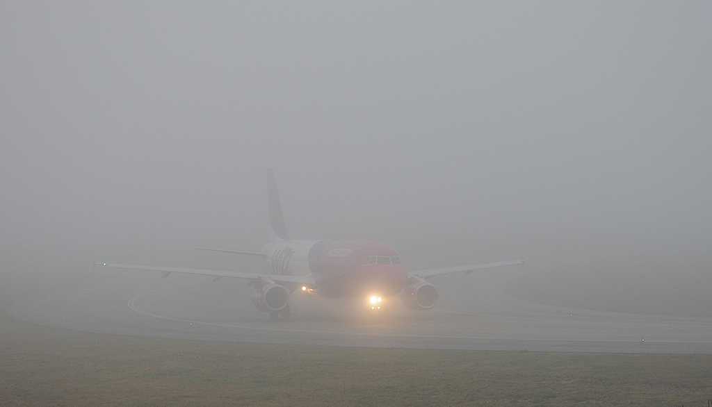 Take off in the fog at Skavsta Airport in Nyköping